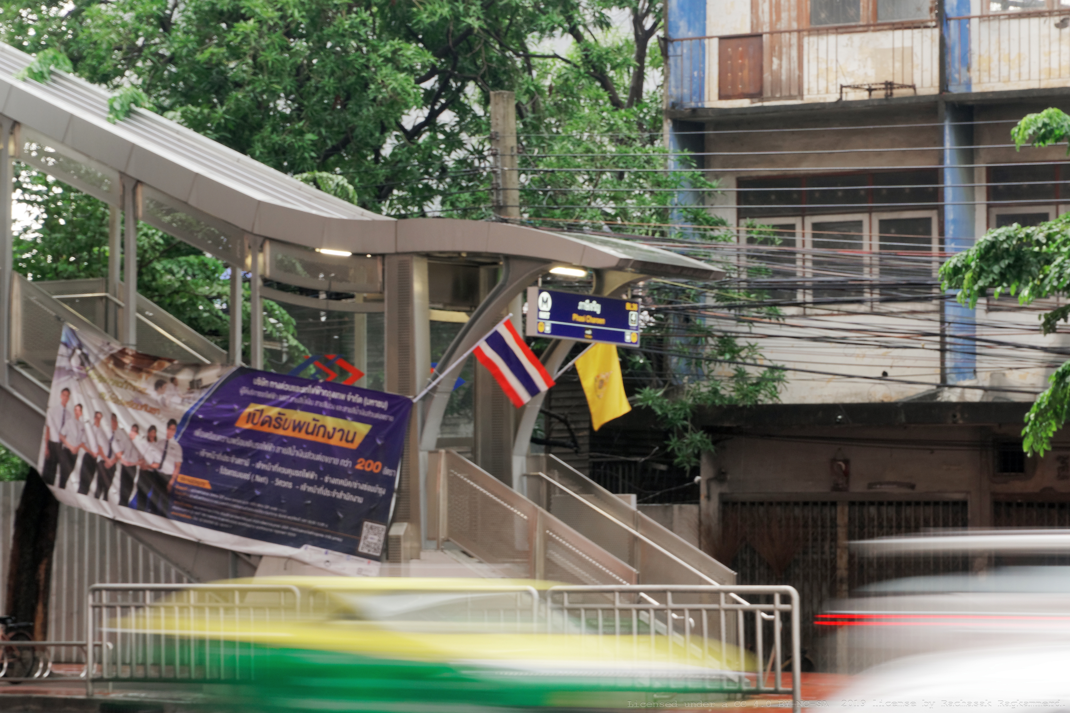 MRT Phasi Charoen station: Exit #4